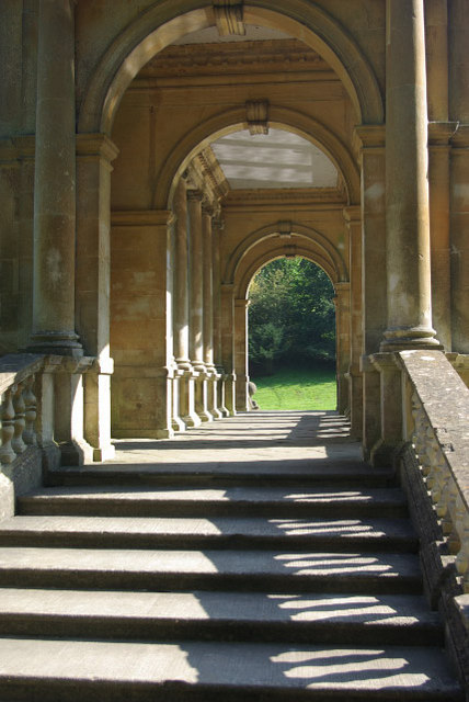 The Palladian Bridge, Prior Park Looking across the bridge built in 1755.